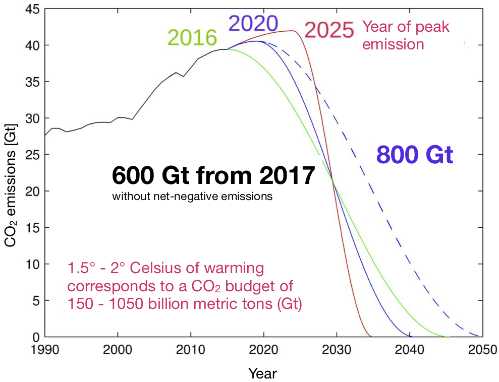 English translation of Stefan Rahmstorf's plot "Emission paths for reaching the Paris Agreement.jpg"